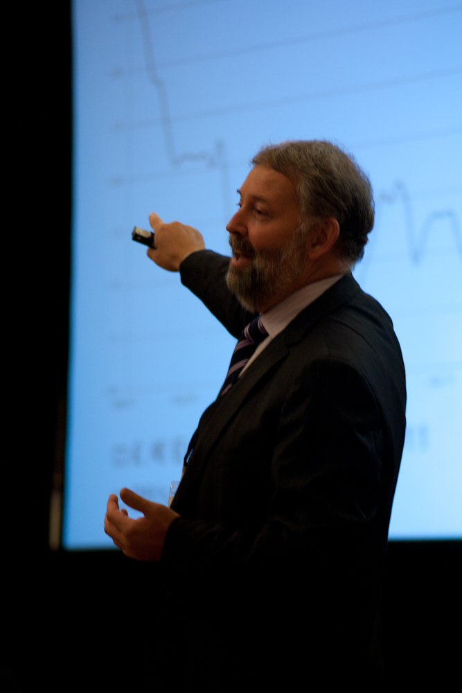 Professor Cillian Ryan - Have we got the right solution to the current global crisis?